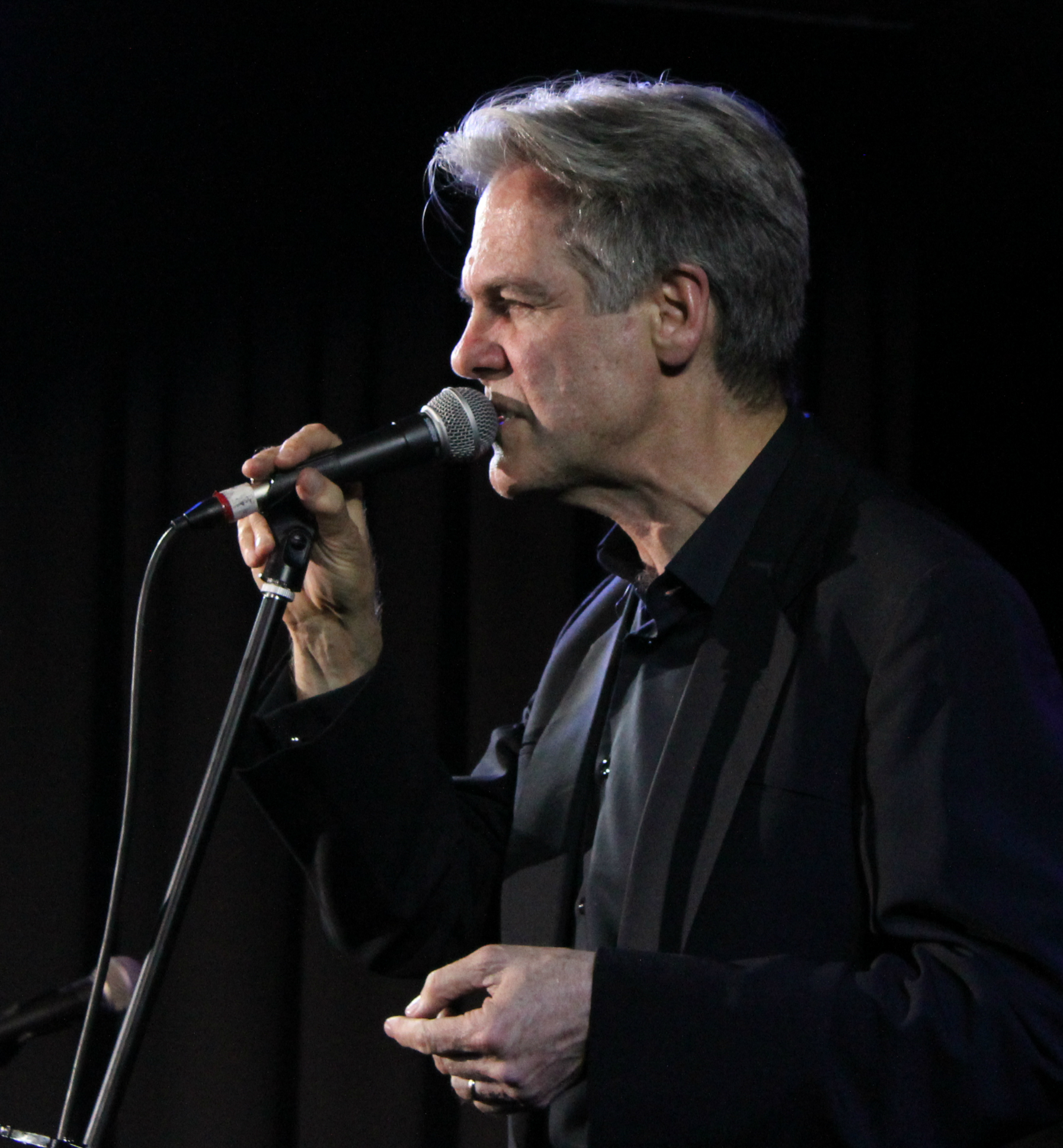 Don Walker performing live in Mullumbimby